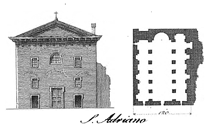 plan and elevation of S. Adriano al Foro Romano (Rome)